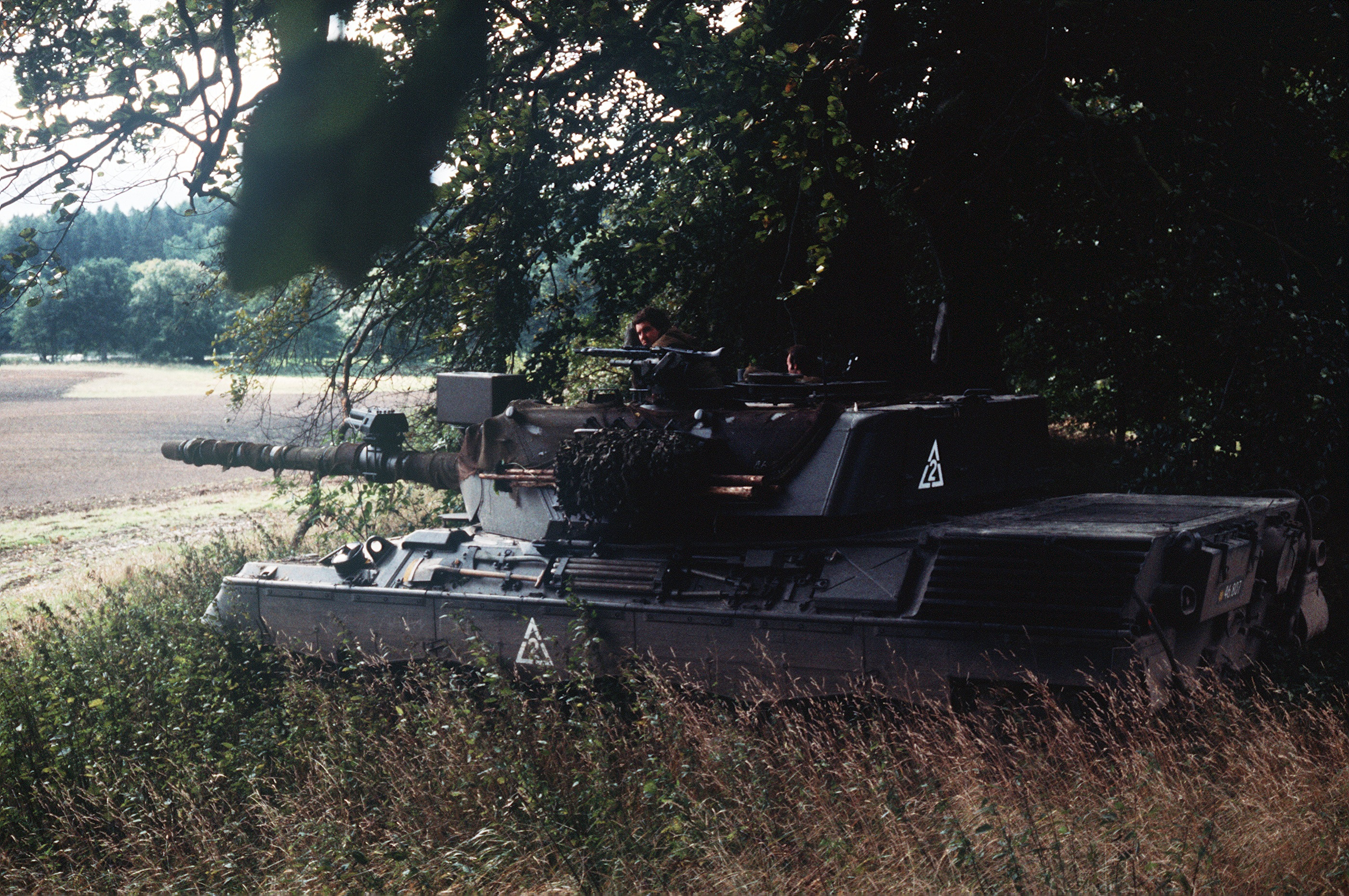 Left rear view of a West German-built danish Leopard 1A3 main battle tank.